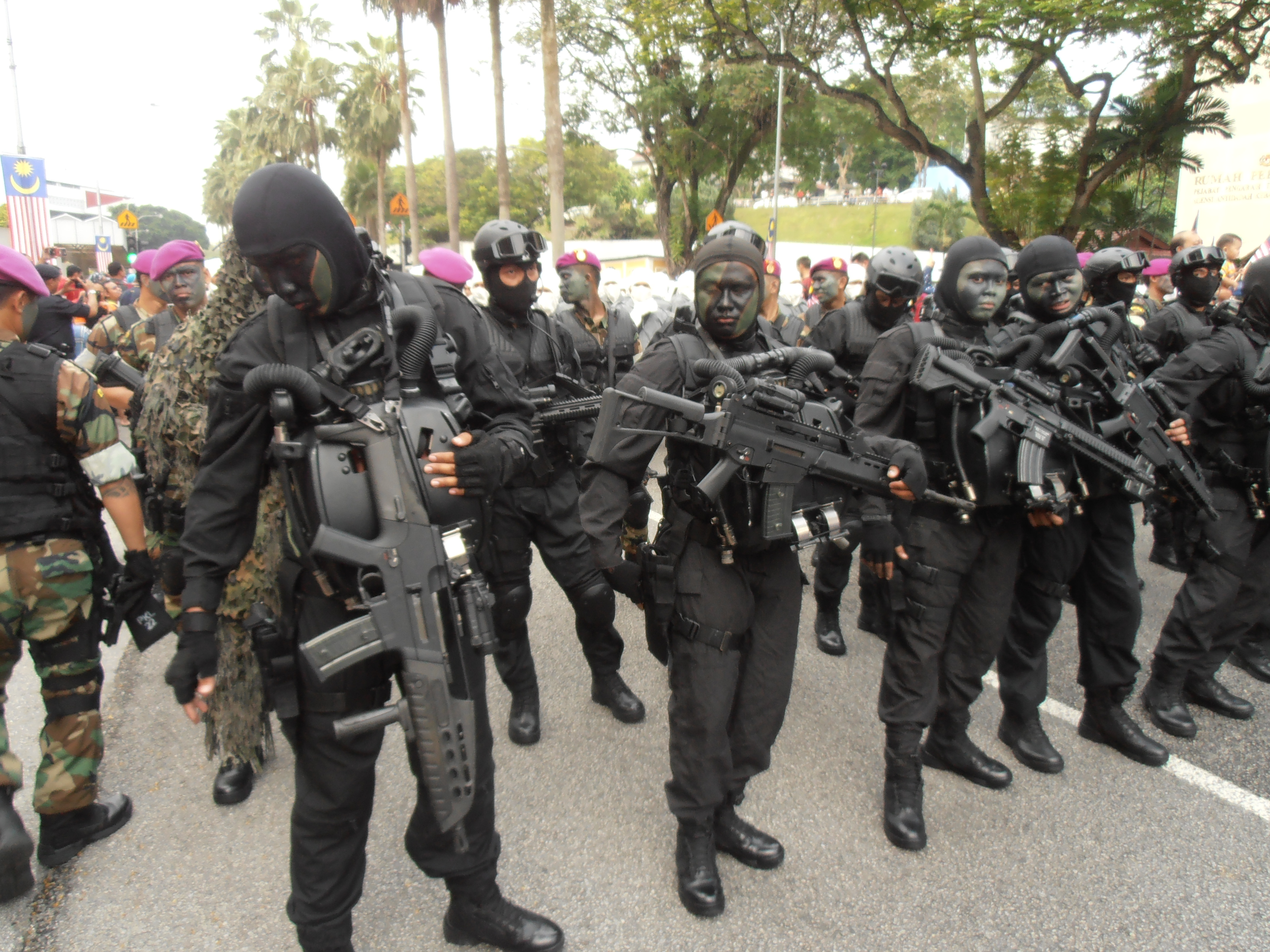 The Navy PASKAL operators prepare to parade during the 57th National Day Parade of Malaysia at Merdeka Square, Kuala Lumpur. From left, they're arms with HK XM8 Carbine 12.5 inches equipped with Aimpoint M68 CCO and vertical foregrip, G36E with top-mounted MIL-STD-1913 Picatinny rail carrying handle and Aimpoint M68 CCO, HK416 D10RS and G36C.